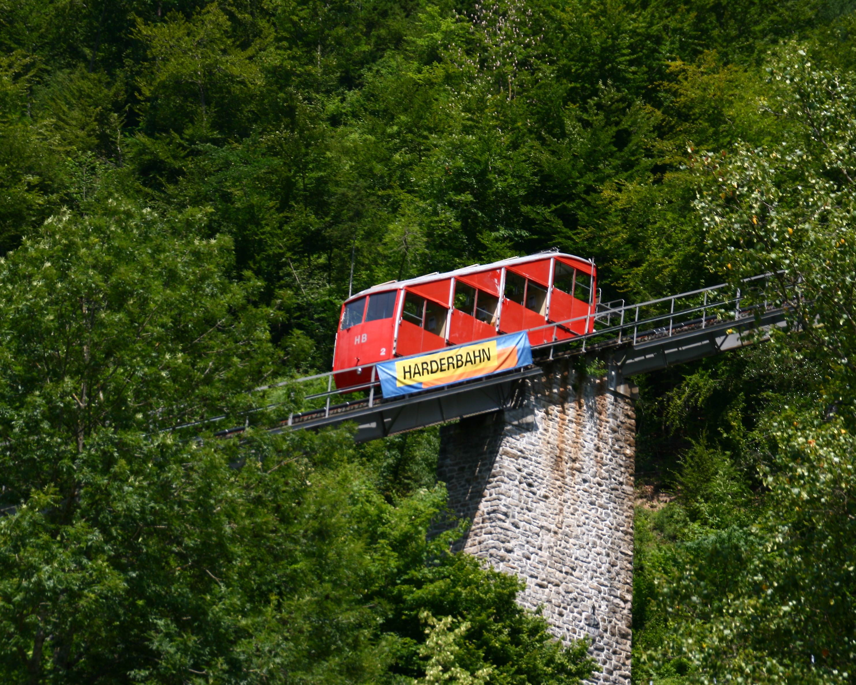 The Harderbahn, a Swiss funicular railway that operates from the town of Interlaken to the mountain of Harder Kulm. For more information, see the wikipedia article Harderbahn.